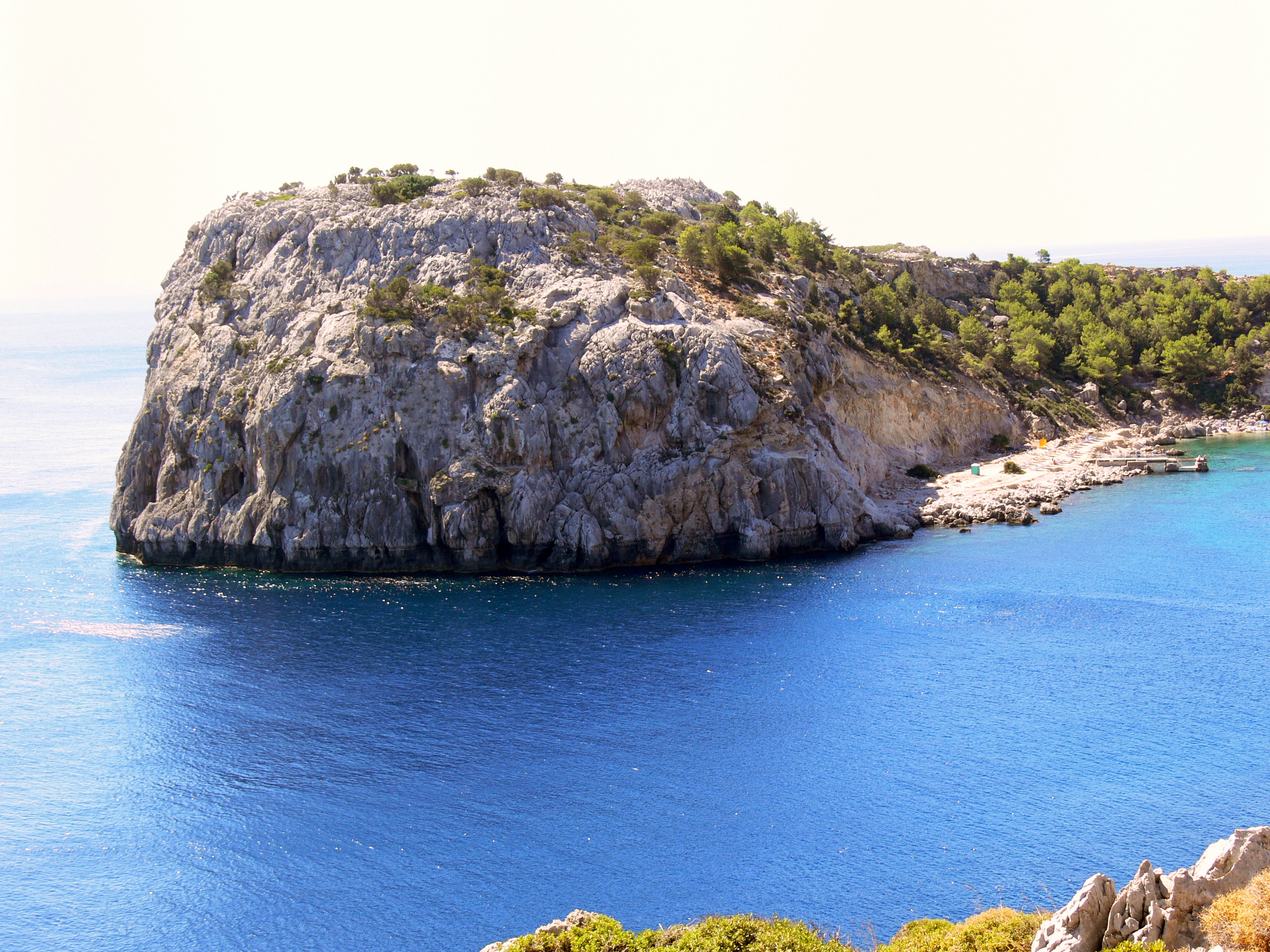 Anthony Qiunn Bay, Rhodes, Greece